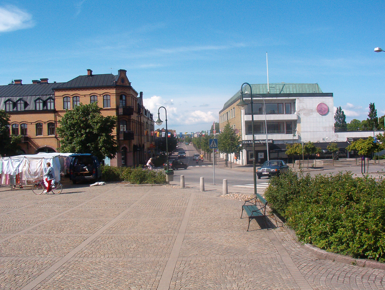 First image of the small town Sjöbo in Skåne in Sweden Date as of upload